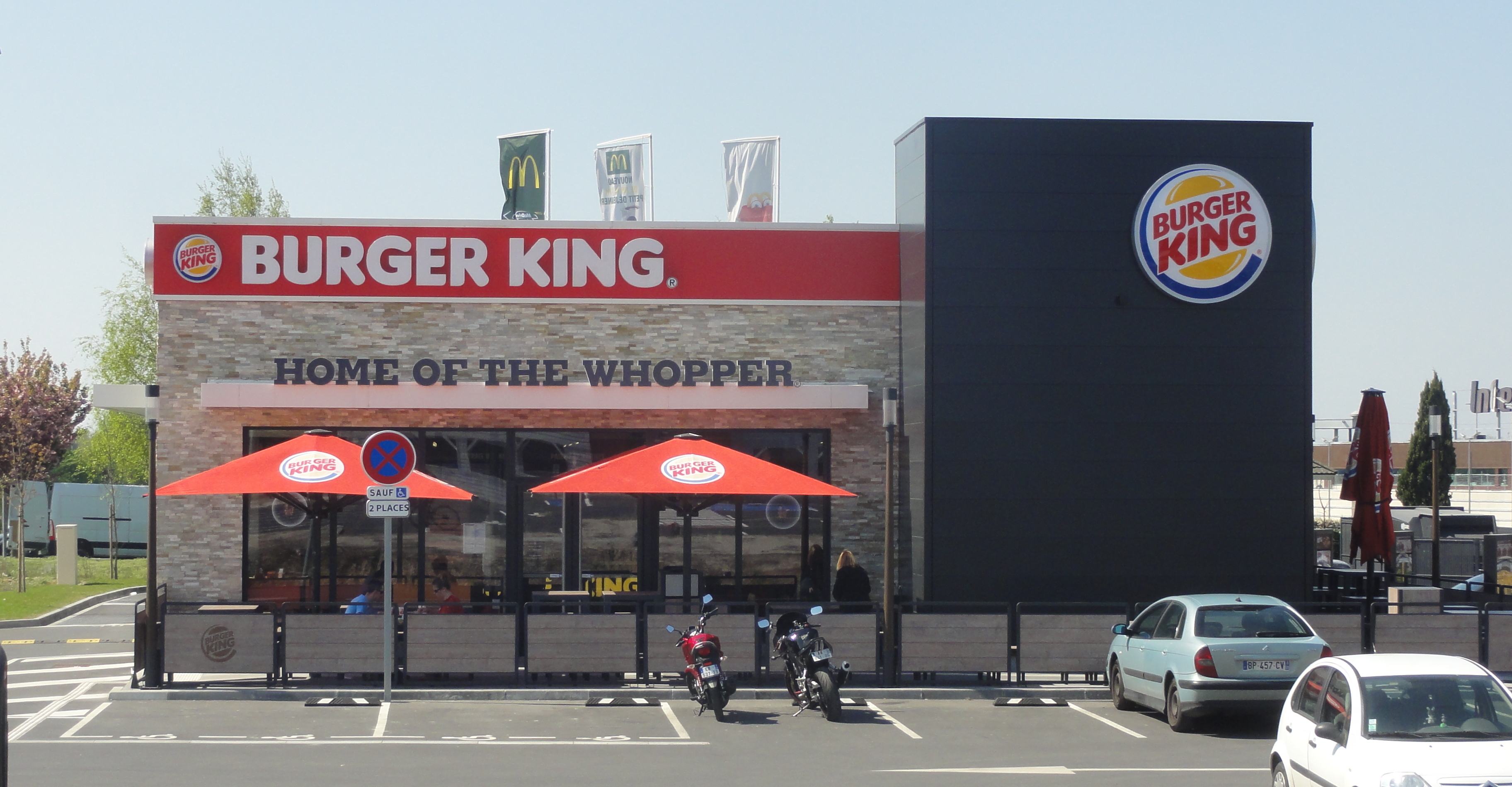 Depicted place: Burger King Somain